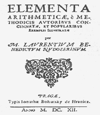 Vavrinec Benedikt Nedožerský: Elementa arithmeticae e methodicis autoribus concinnatae et popularibus exemplis illustratae (Praha 1612) – book-jacket „Foundations arithmetic“